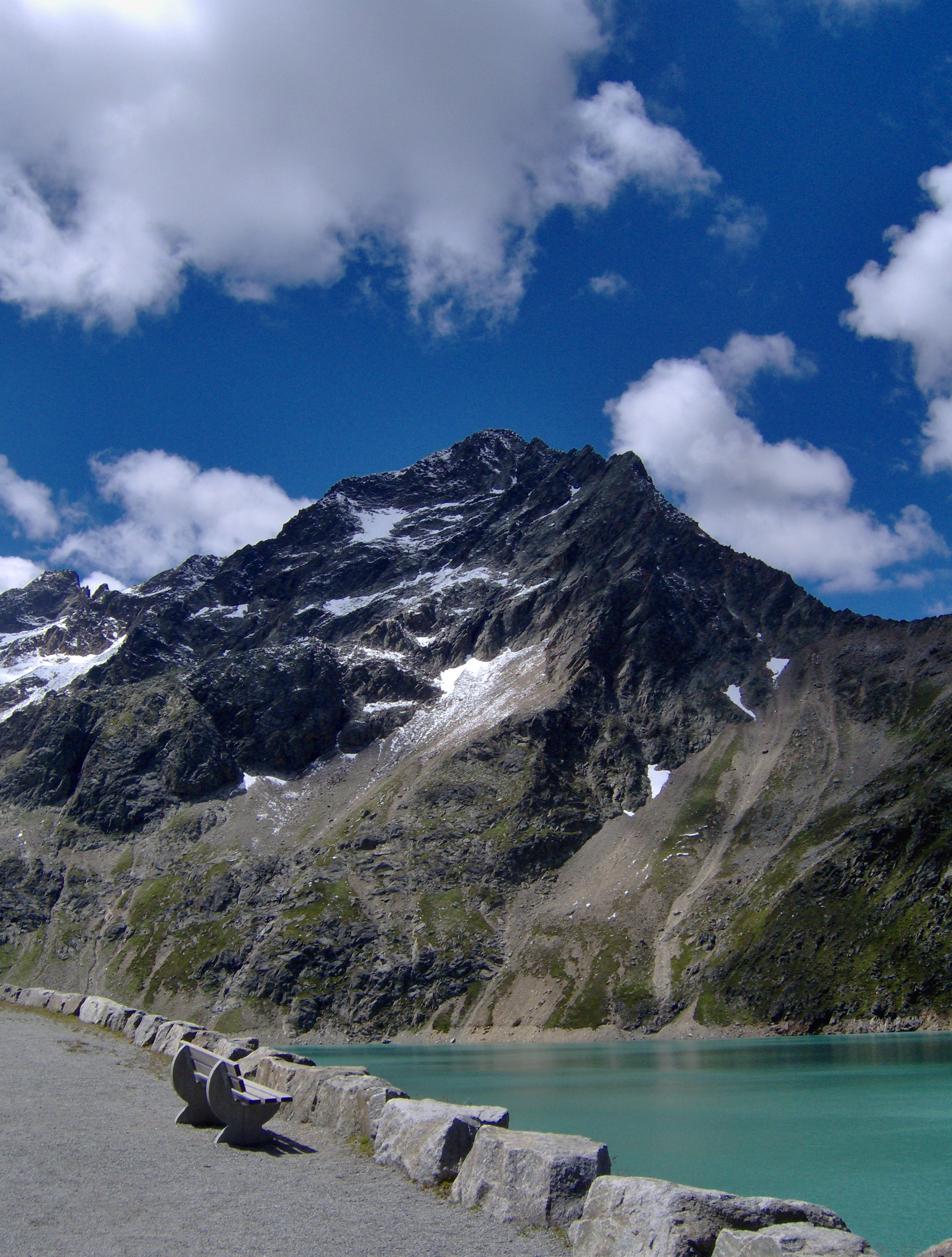 The mountain top Zwölferkogel in the Stubai Alps, near the reservoir Speicher Finstertal near Kühtai, Tyrol, Austria.